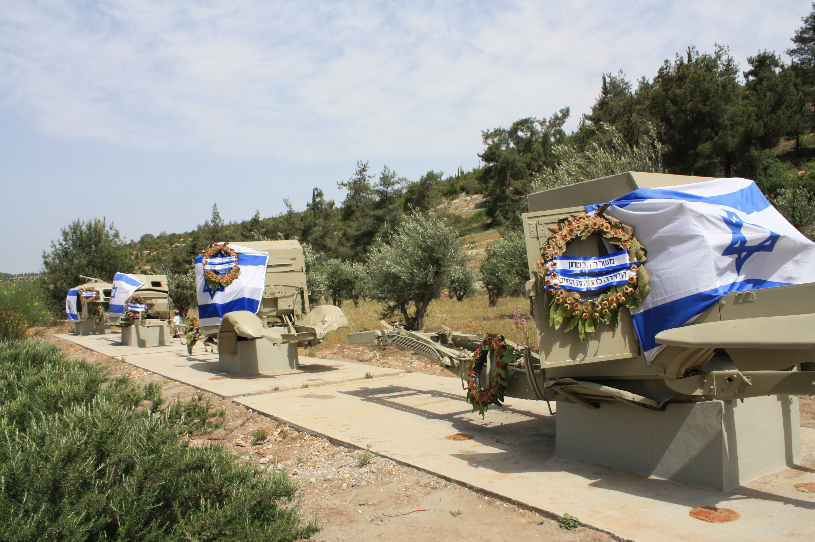 Remains or armored vehicles in Sha'ar hagai.